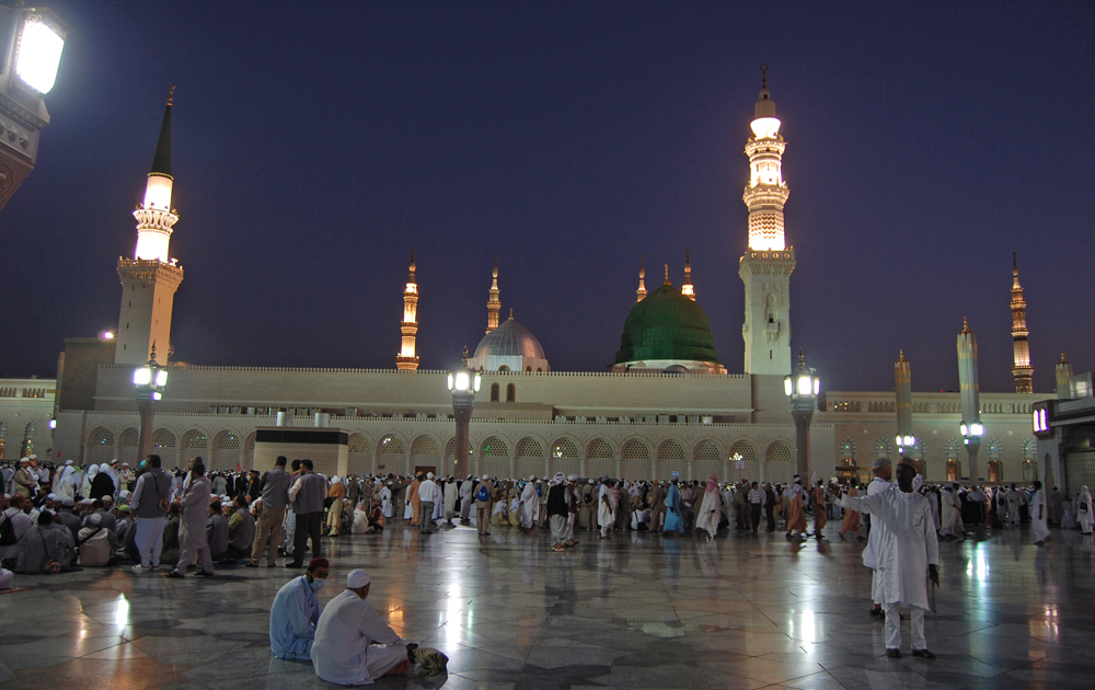 Masjid Nabawi in Medina, front view